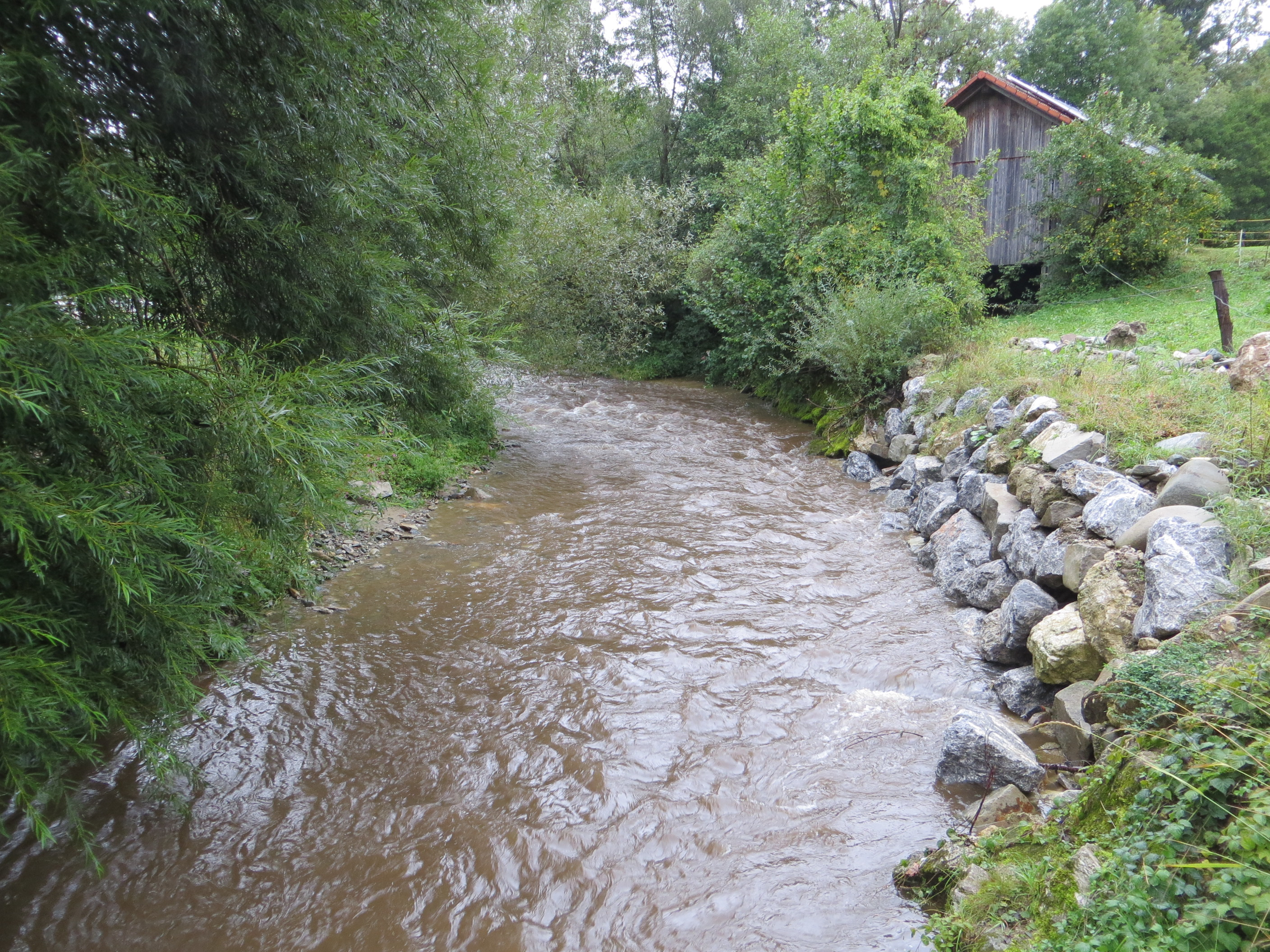 The Mislinja River in the hamlet of Spodnje Dovže in Dovže, Municipality of Mislinja, Slovenia